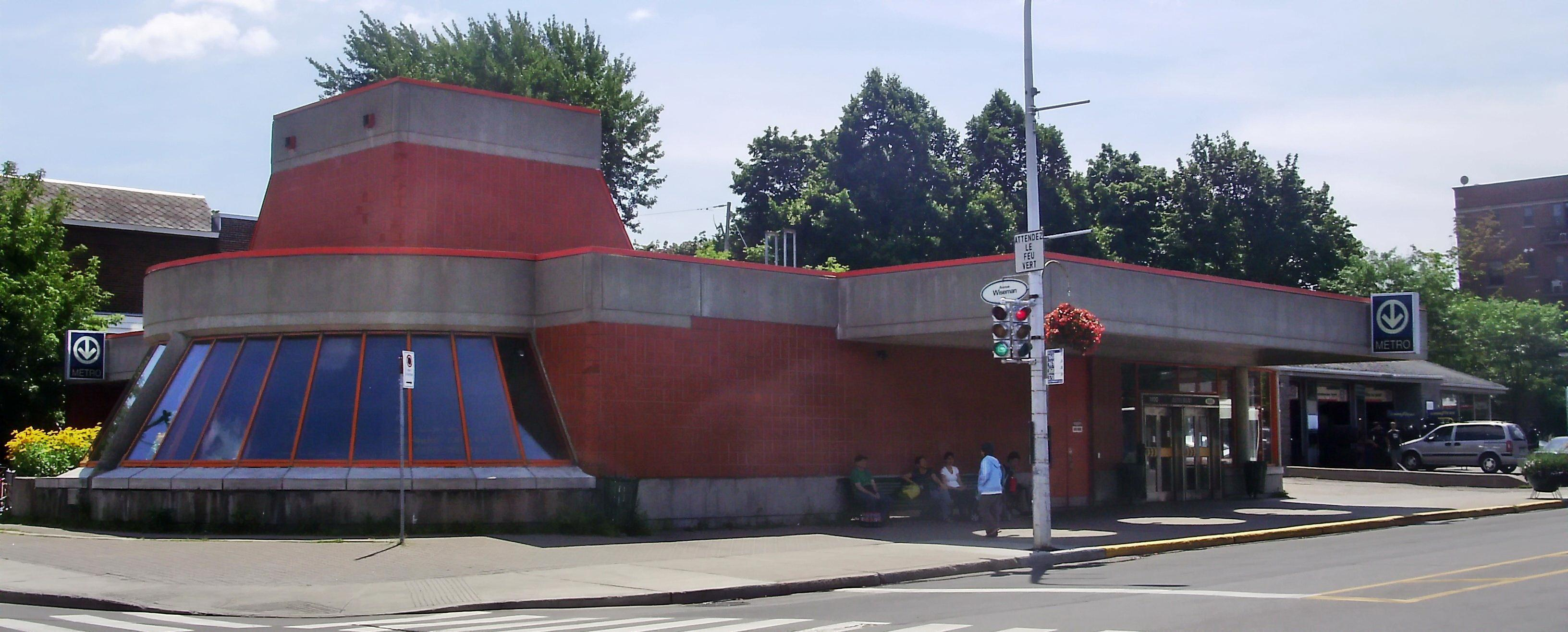 The Société de transport de Montréal's Outremont metro station in Montreal, Quebec, Canada.